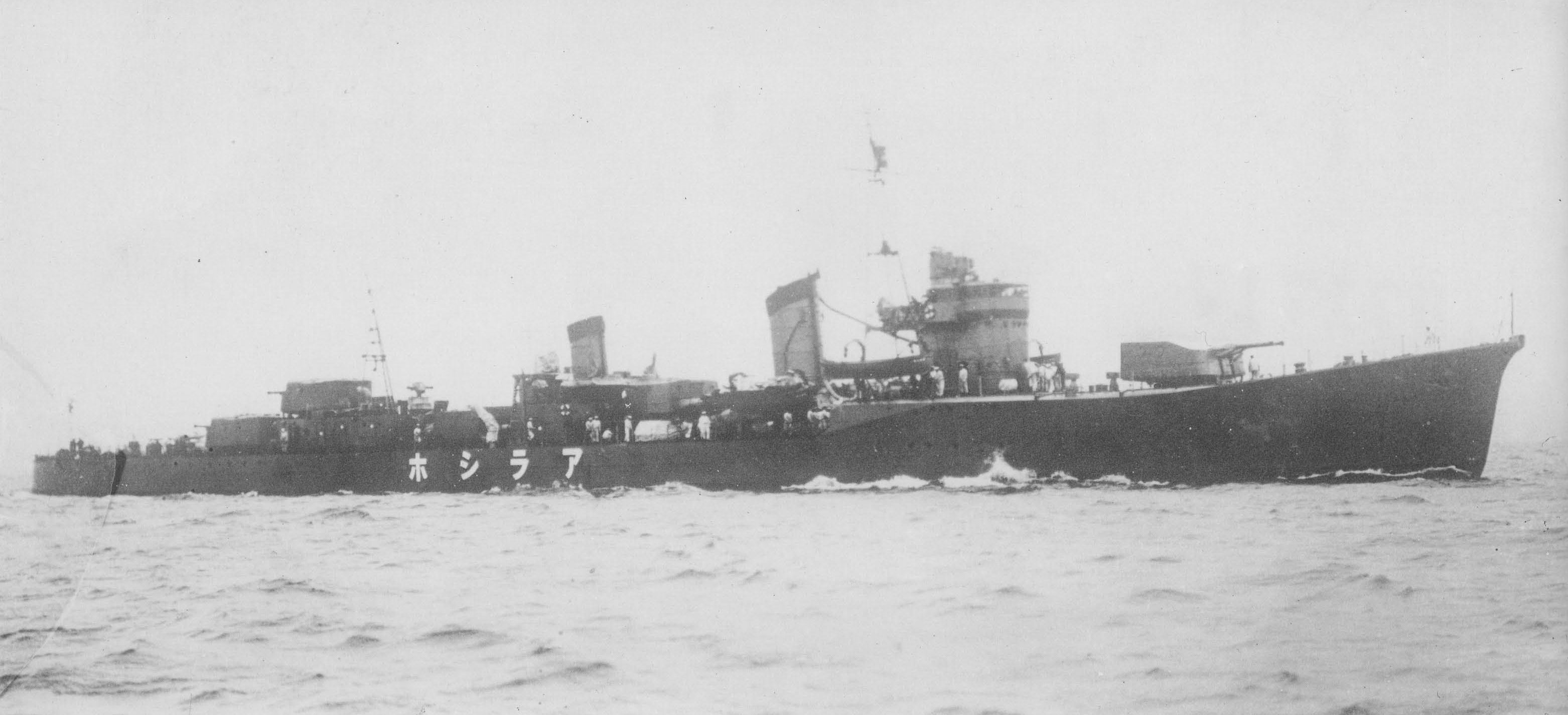 Imperial Japanese Navy destroyer Arashio